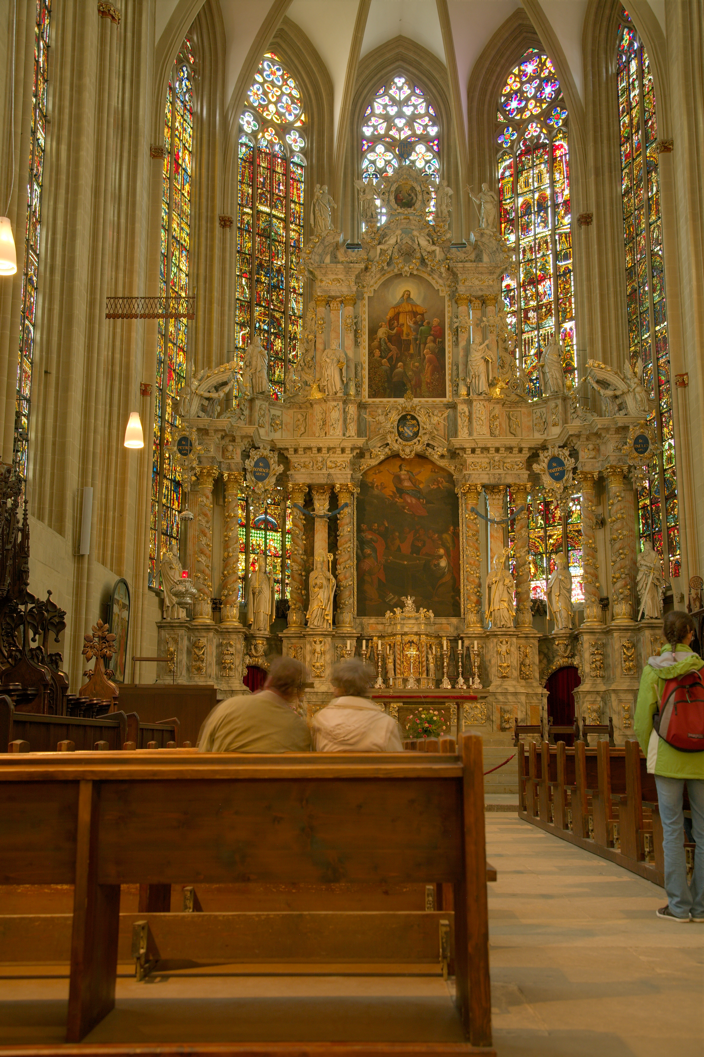 Erfurt cathedral